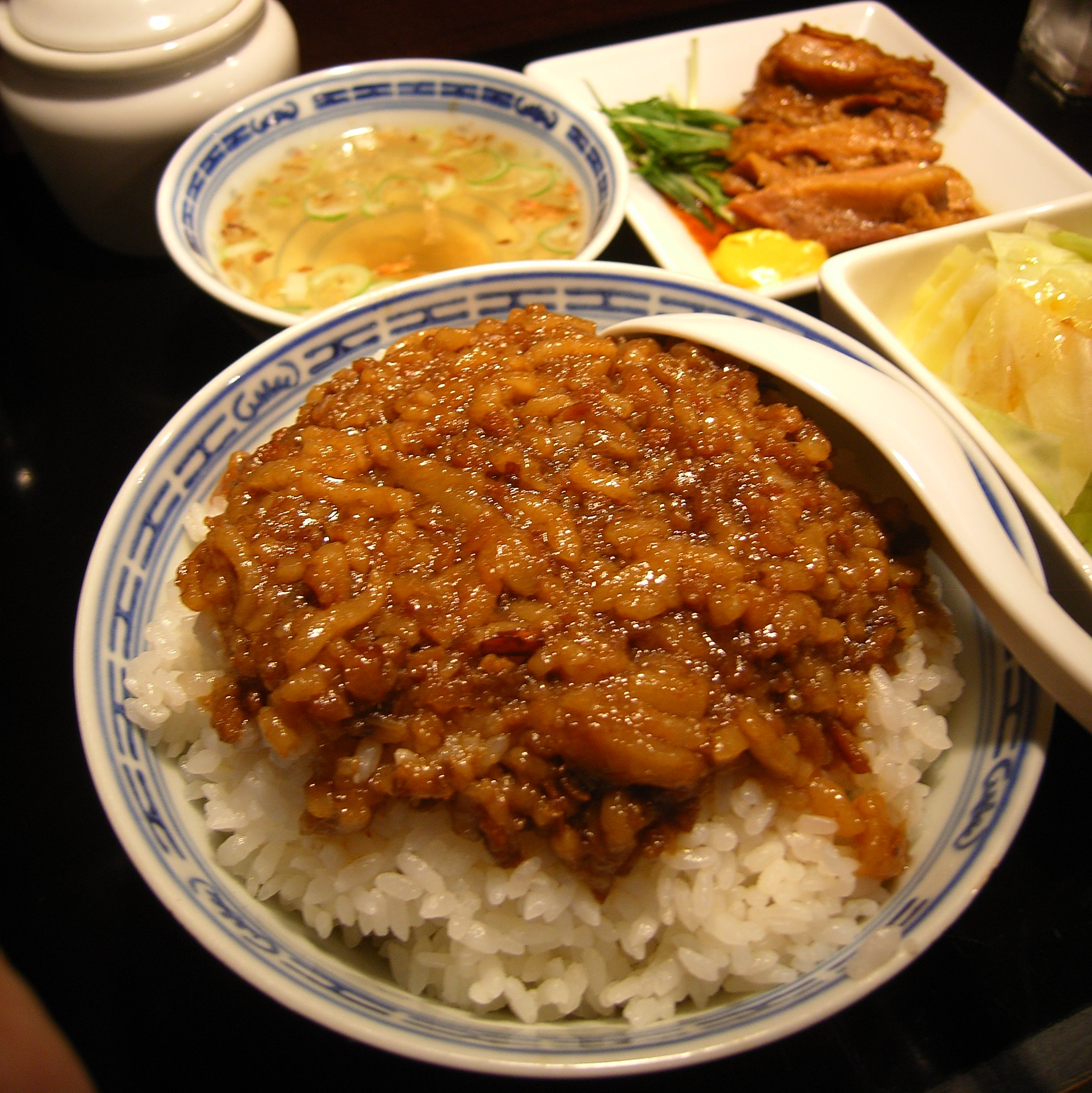 Lurou fan is minced fatty pork served on rice, Taiwanese cuisine.